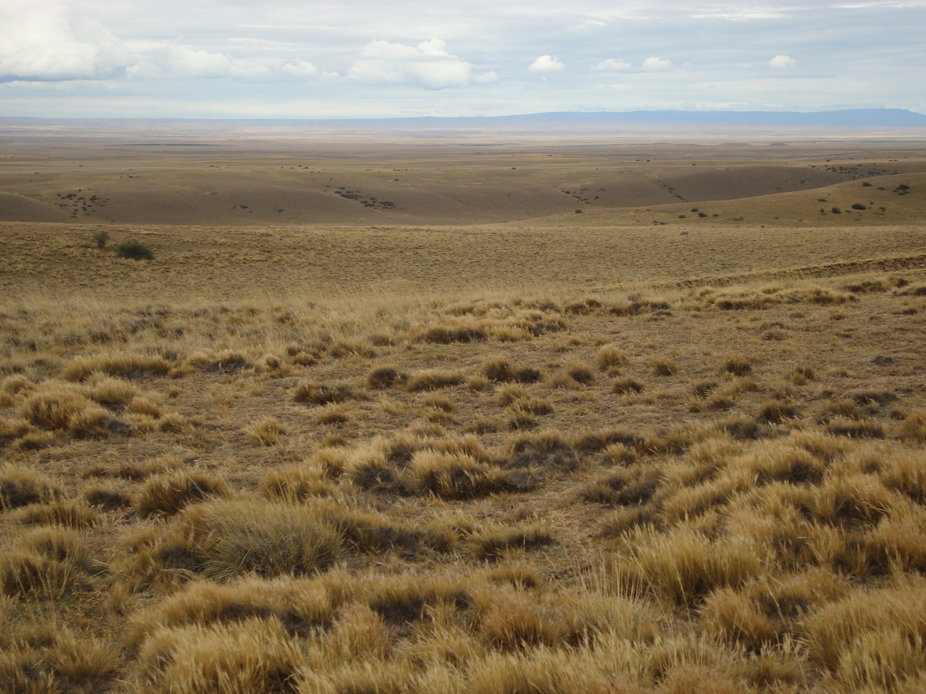 Nothing but grass and sheep as far as you can see... And pink flamingos, but that will have to wait for another picture!